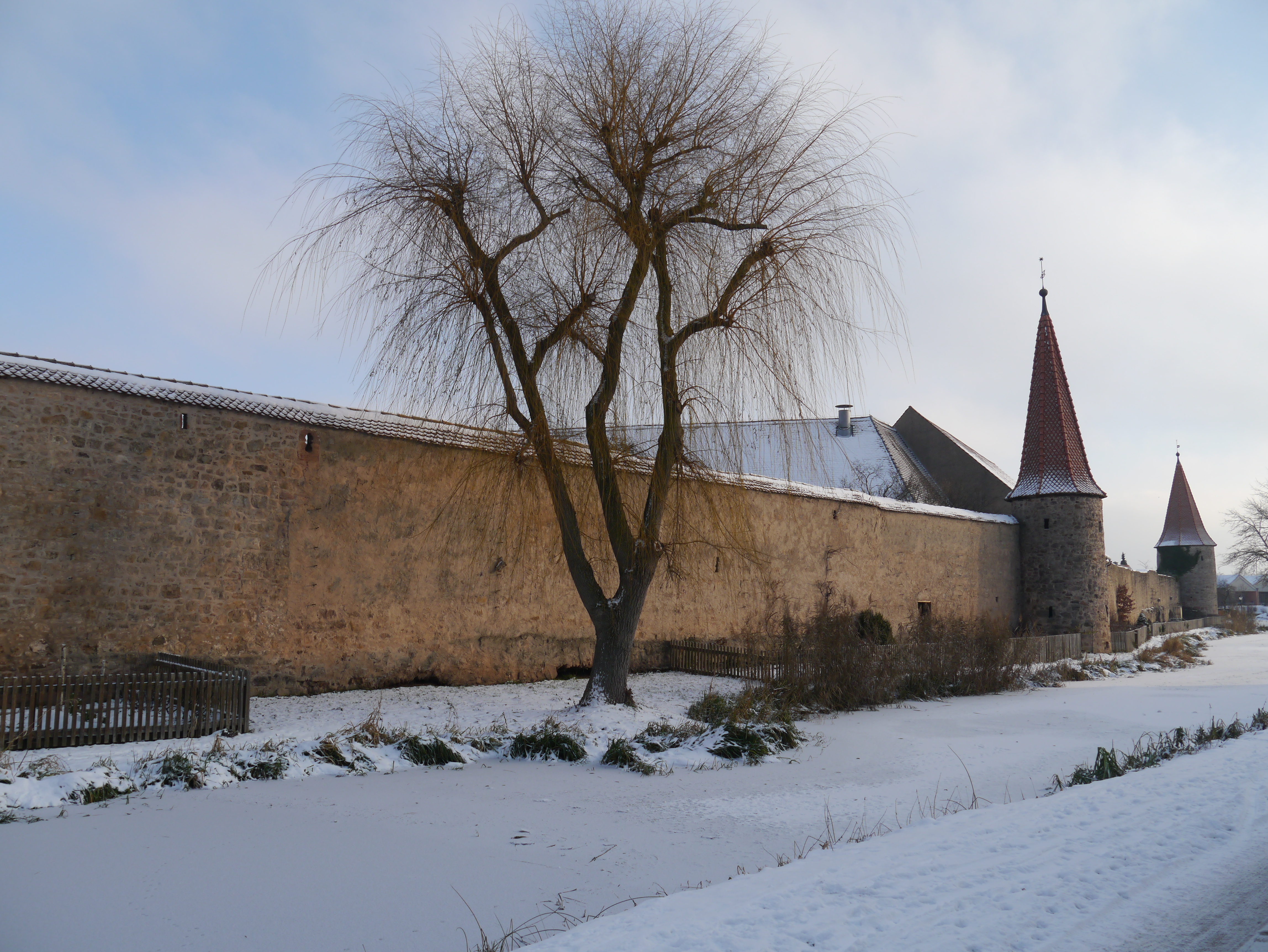 City wall in Merkendorf (Middle Franconia)